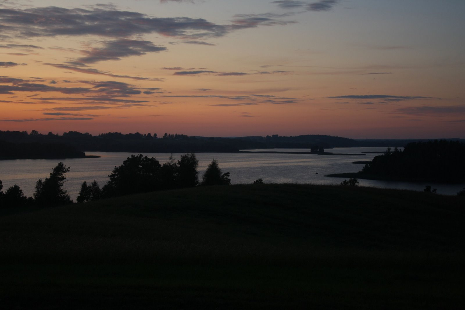 Gaładuś Lake (Podlasie Voivodeship)